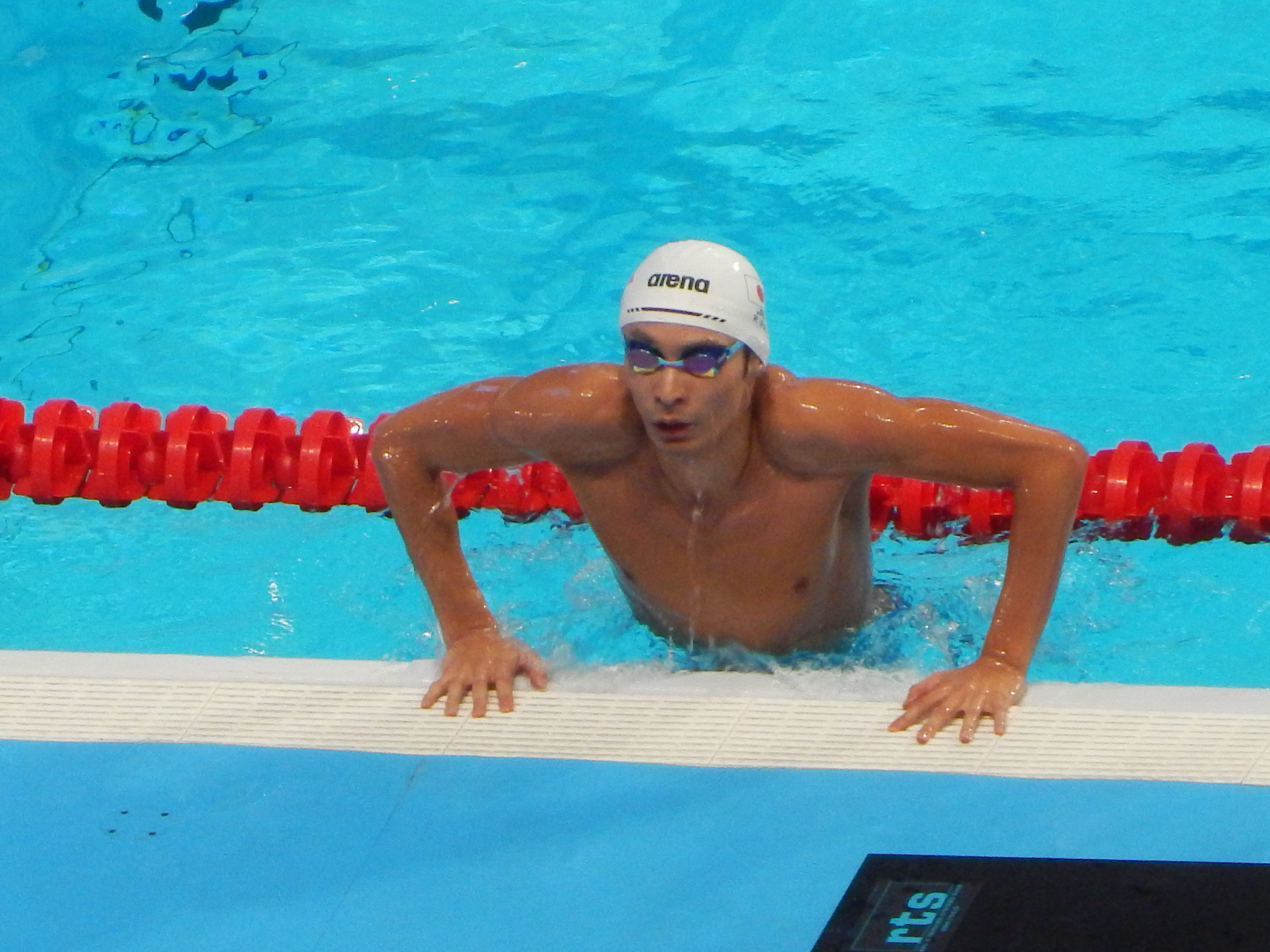 Ryosuke Irie at 2015 World Aquatics Championships in Kazan